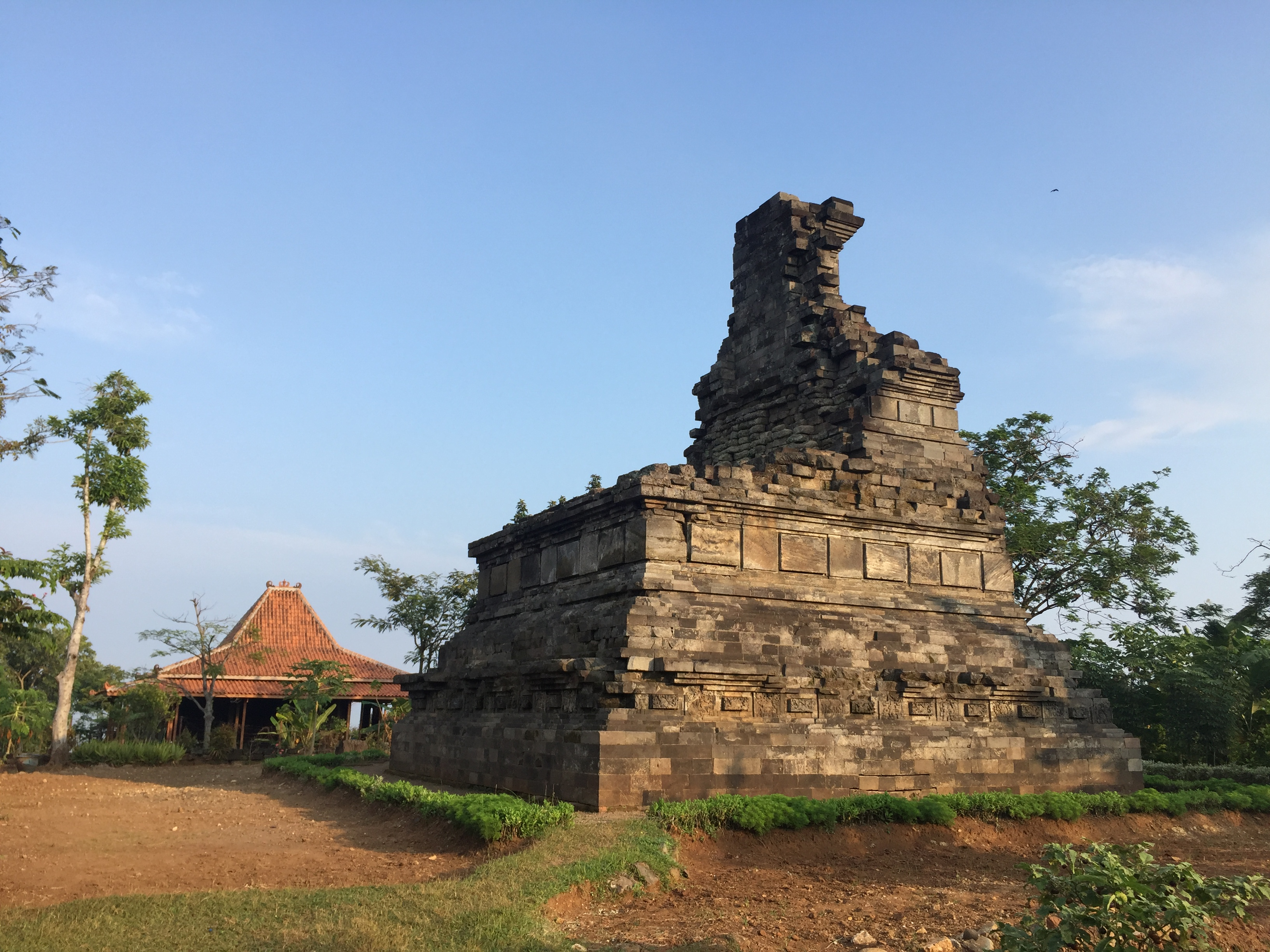 Candi Rimbi, Desa Pulosari, Kecamatan Bareng, Kabupaten Jombang, Jawa Timur